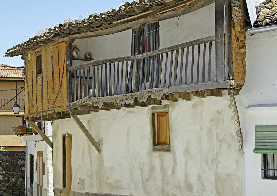 Arquitectura típica